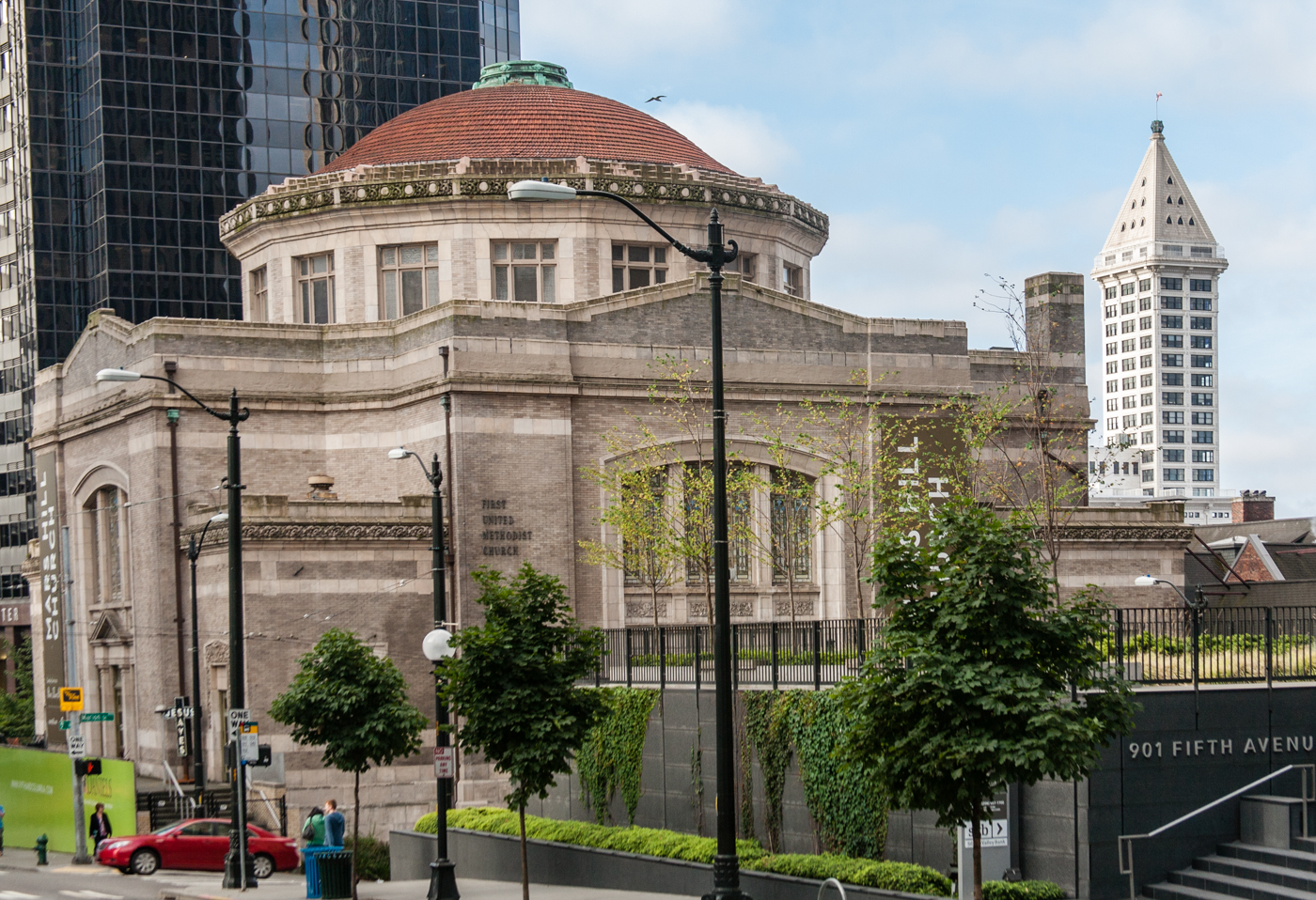 Mars Hill Church banners displayed at the Daniels Recital Hall, formerly the First Methodist Episcopal Church in July 2014.